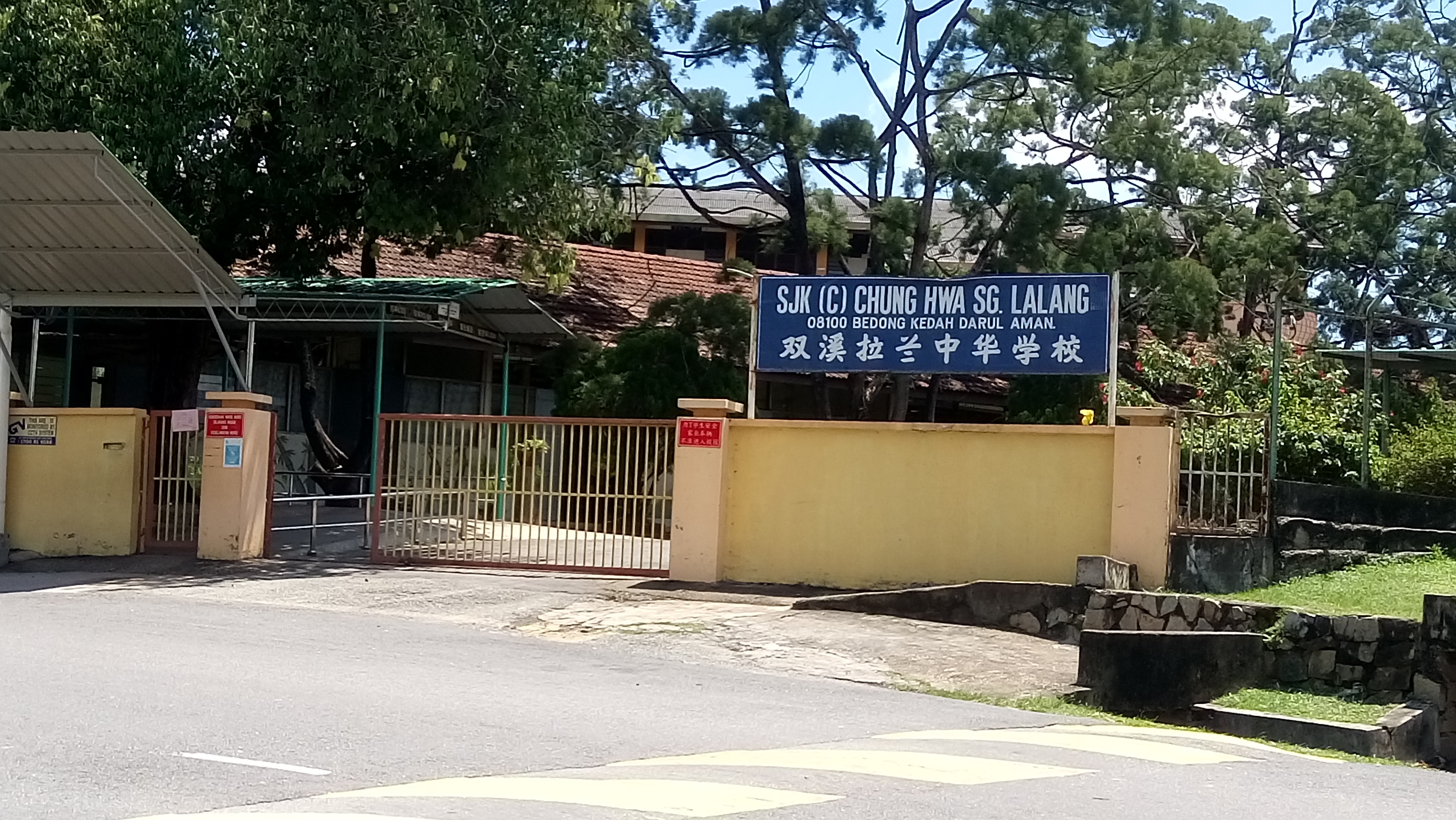 Photo of the entrance and signboard to SJK (C) Chung Hwa Sungai Lalang, a Chinese national-type primary school in Sungai Lalang, Kedah, Malaysia.